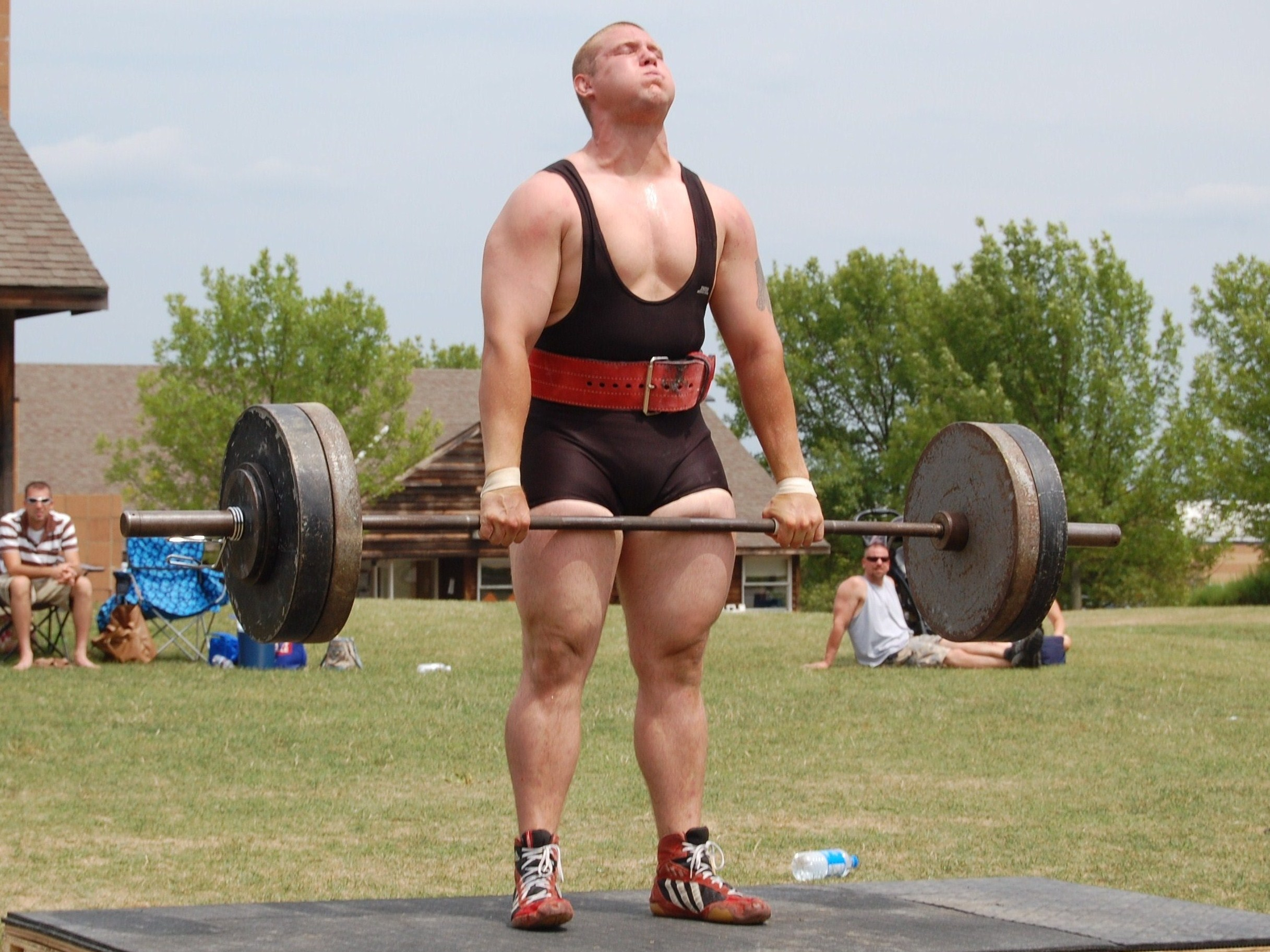 Strongmen event: the Deadlift (phase 3).